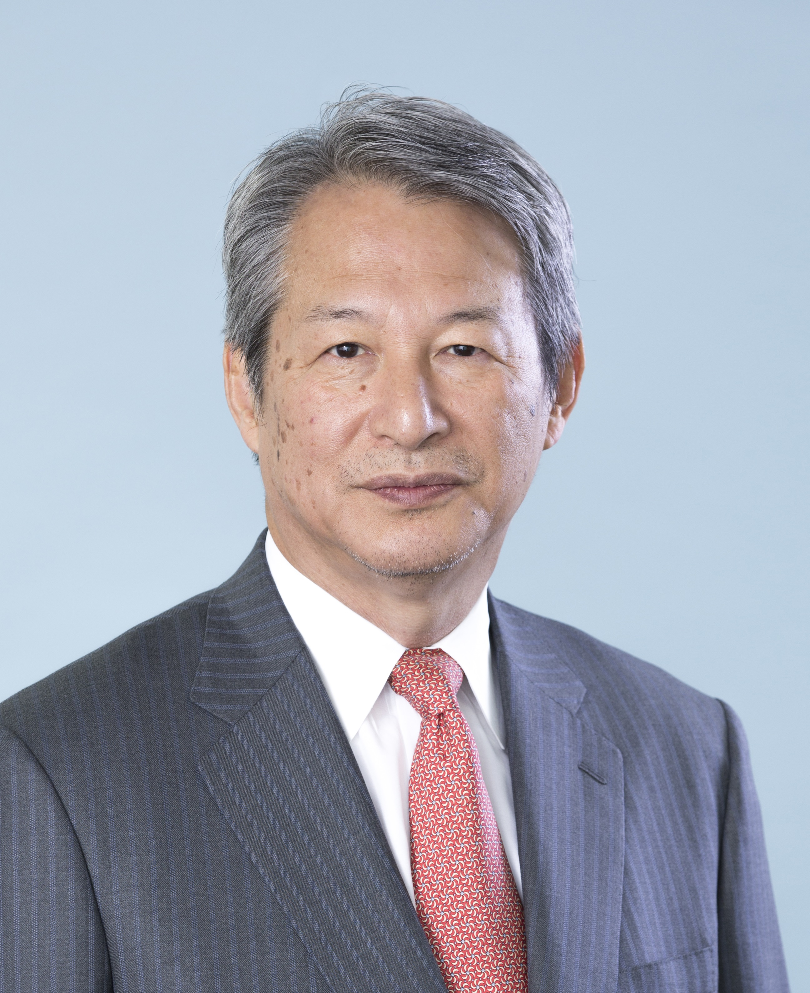 Takashi Shiraishi, President of the National Graduate Institute for Policy Studies, received the Person of Cultural Merit on November, 2016.